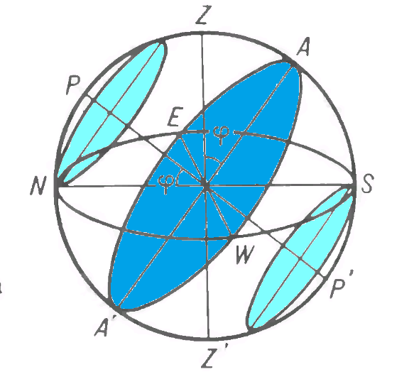 Celestial sphere